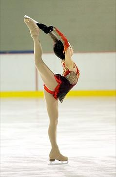 Choi Ji Eun performs a Biellmann spiral.